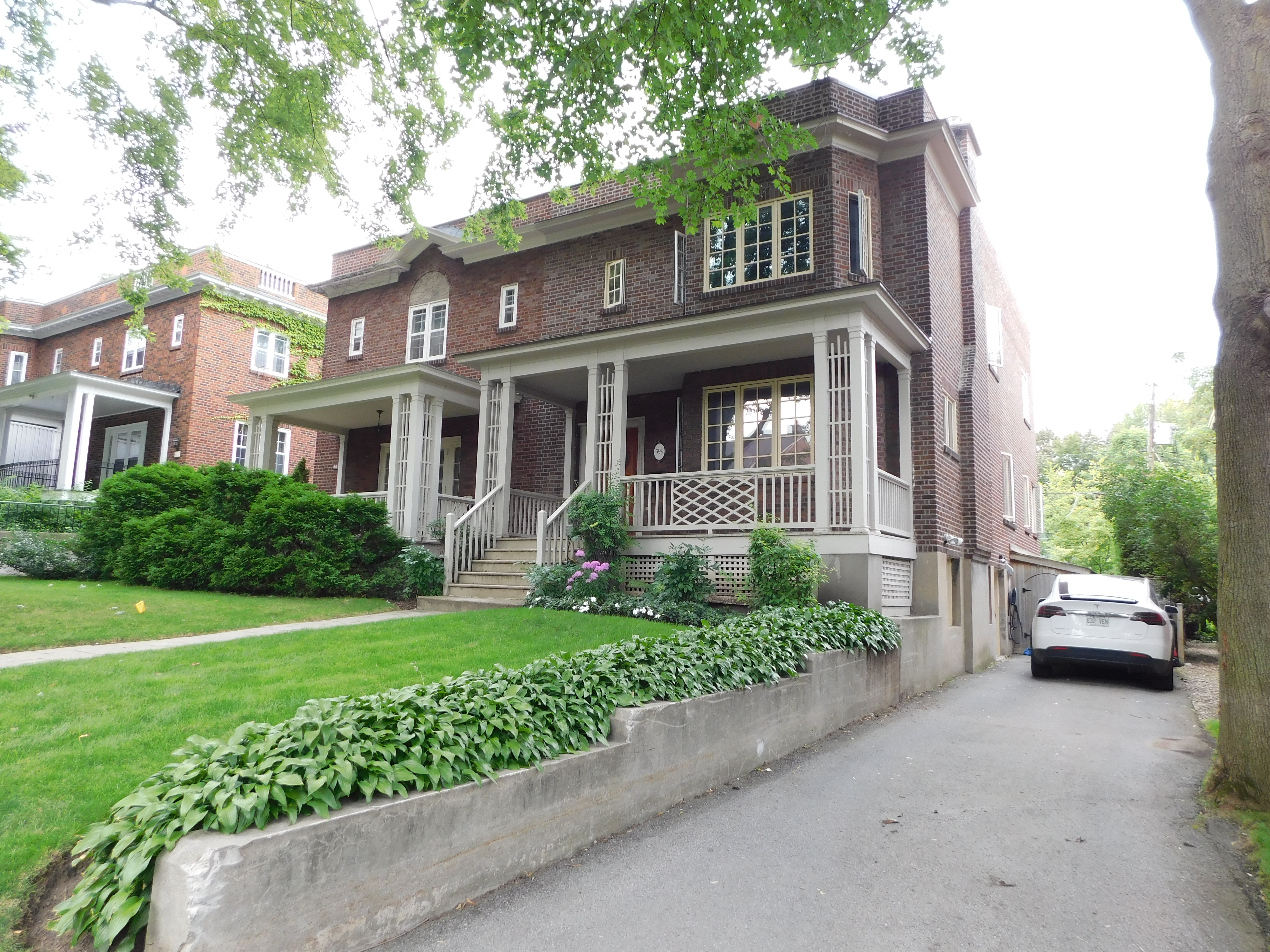 Leonard Cohen's Childhood Home, 599 Belmont Avenue, Westmount, Montréal